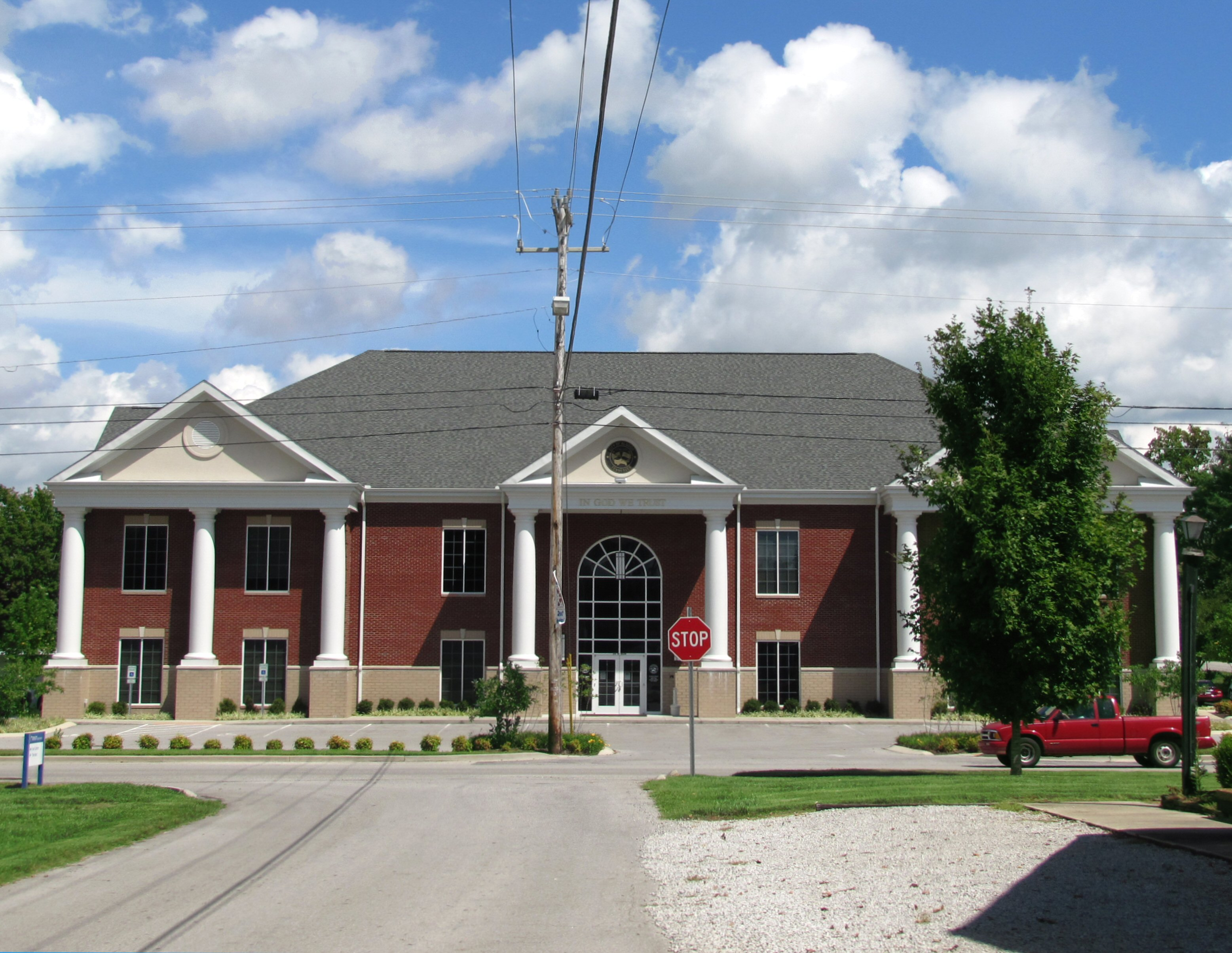 City of Algood Municipal Building in Algood, Tennessee, United States.